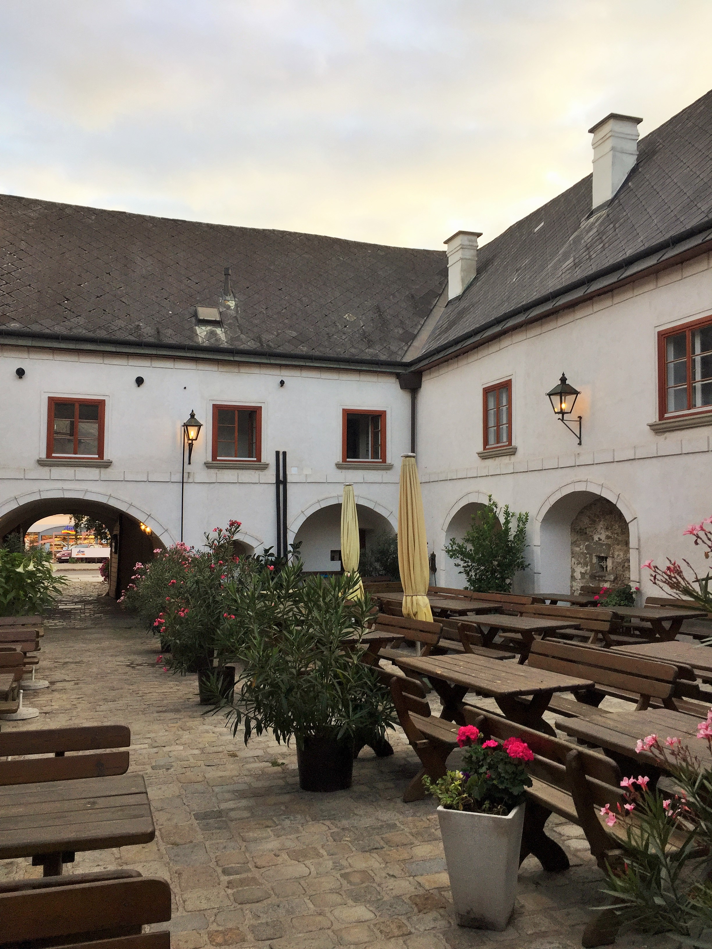 Courtyard with wine tavern at Fuhrmannhaus